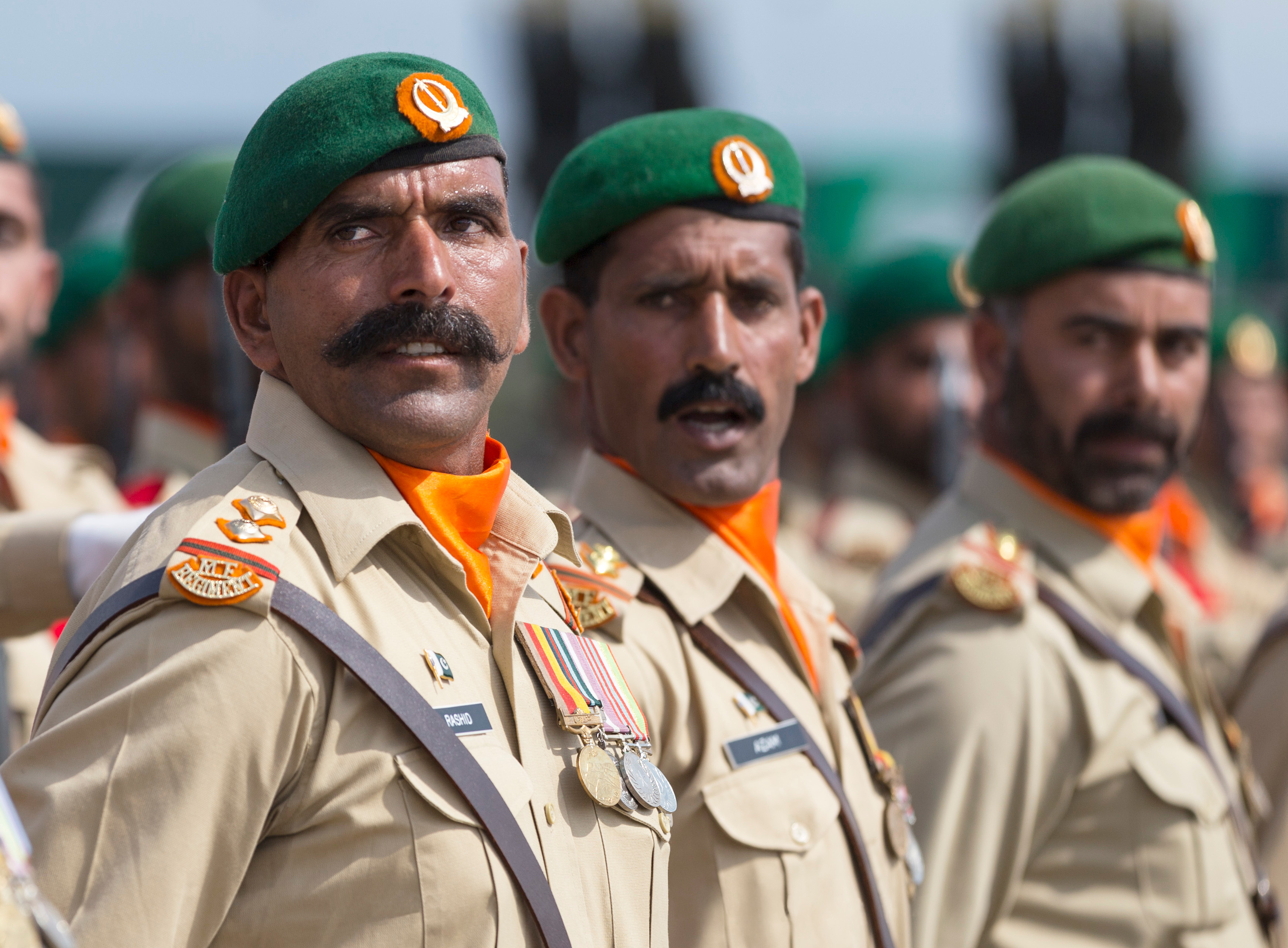 March Past by the Military Contingent